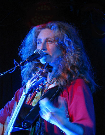 Vicki Genfan playing at The Saint in Asbury Park, NJ on April 28, 2013. Revised - no light. By LHCollins.